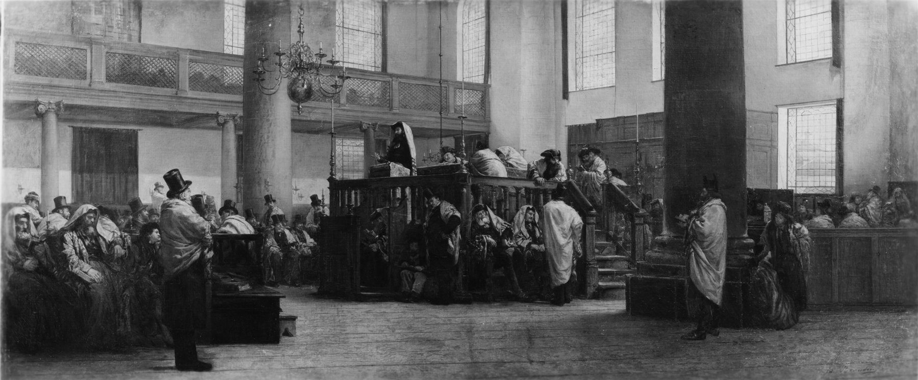 Brandon received a medal at the Paris Salon of 1867, the year this work was shown as "Le Sermon du daian Cardozo; synagogue d'Amsterdam, le 22 juillet, 1866." It is a dramatically lighted interior view of one of Europe's most famous and picturesque synagogues (consecrated 1675). The sermon is being delivered by the distinguished Talmudist David de Jahacob Lopez Cardozo (1808-1890), who was appointed "ab bet din" of the Portuguese Synagogue in 1839. Another painting of this interior, "La synagogue portugaise d'Amsterdam," is cited by H. Mireur (Vente Brandon, Paris, 1897, "Dictionaire des Ventes d'Art," Paris, 1911, 1: 440).